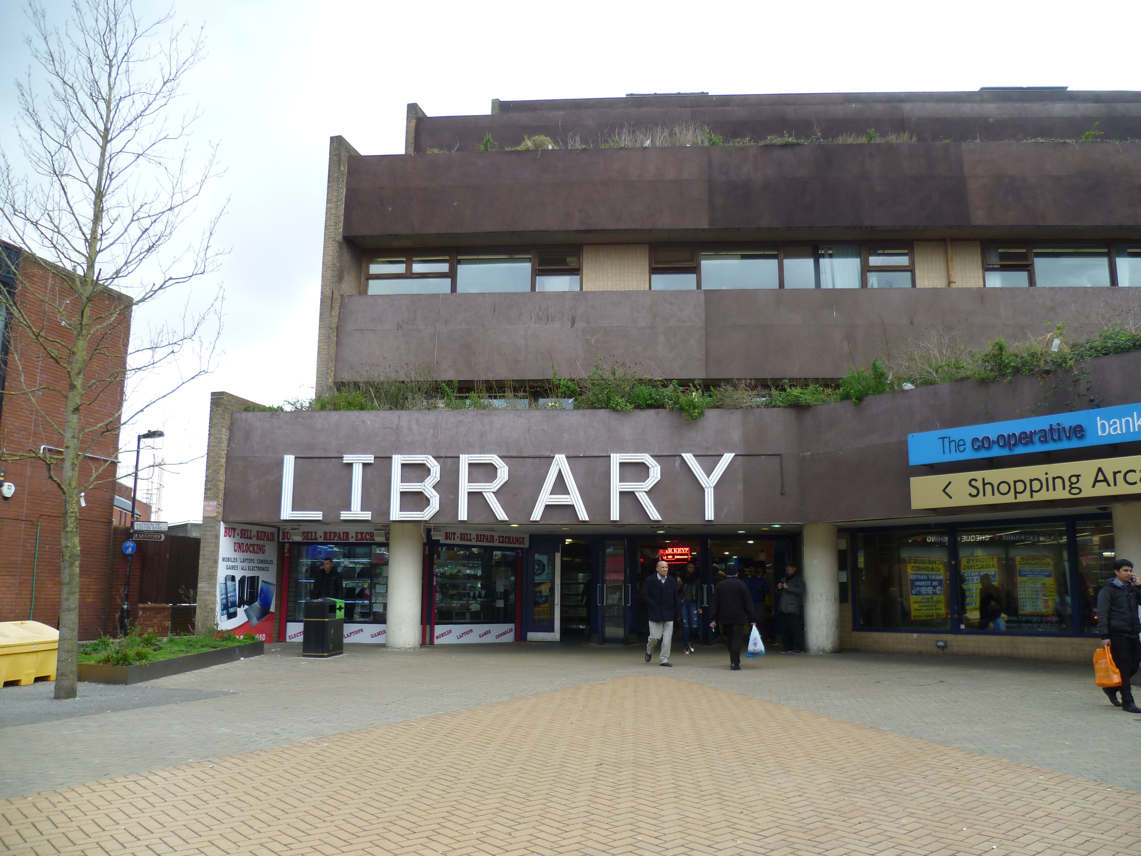 London